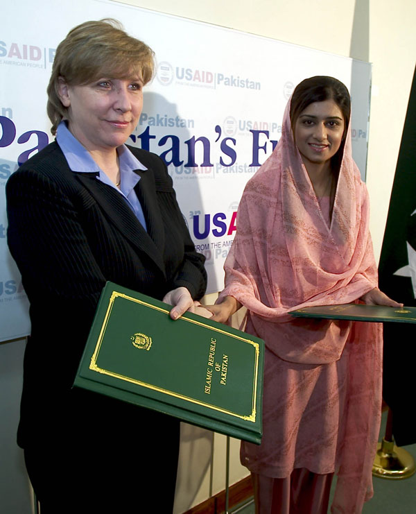 Christina B. Rocca, head of the Bureau of South and Central Asian Affairs, on the left, meets with Pakistan's State Minister for Economic Affairs, Hina Rabbani Khar, on the right.